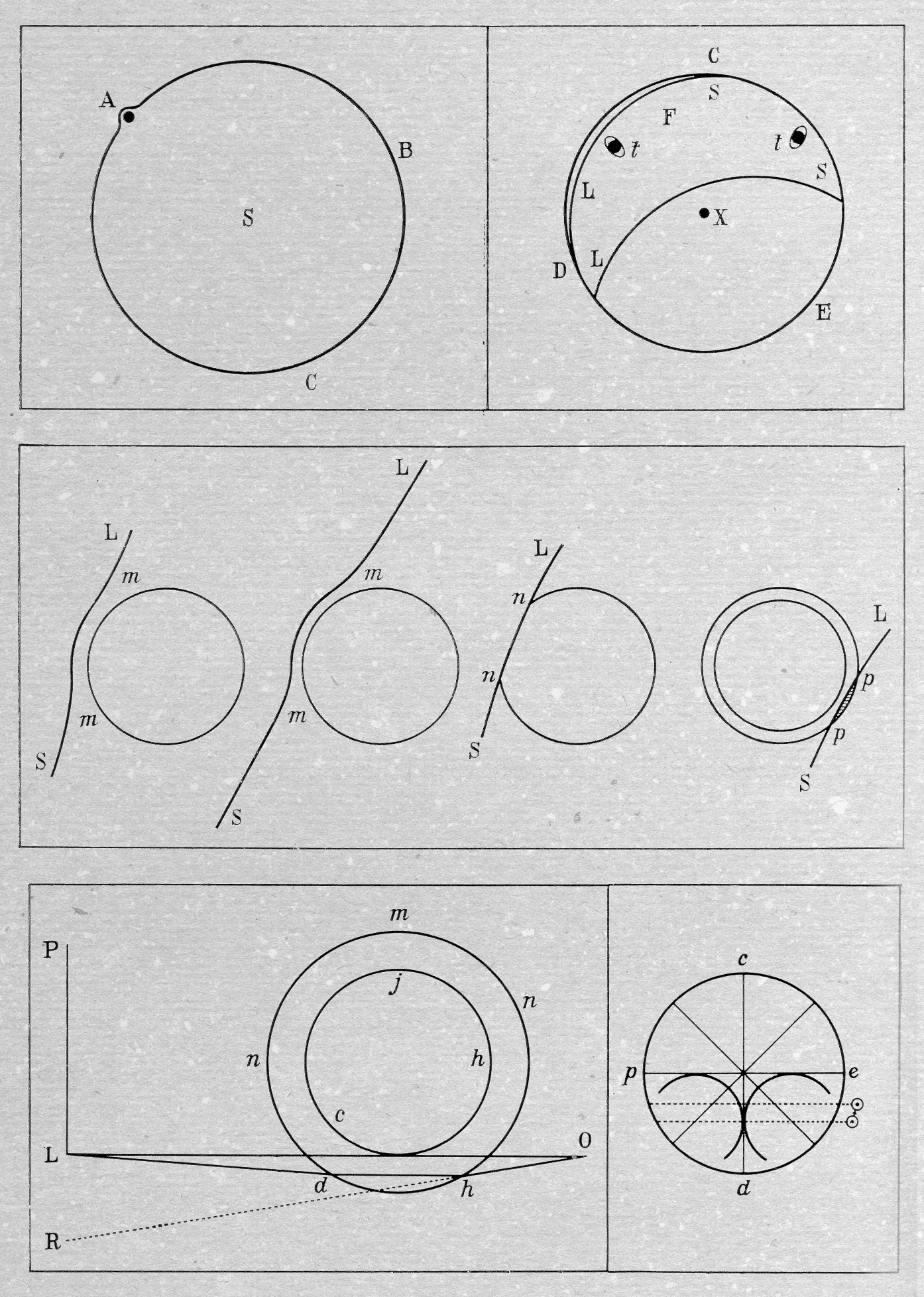 Lomonosov's drawings in manuscript about his discovery of Venus atmosphere.1761